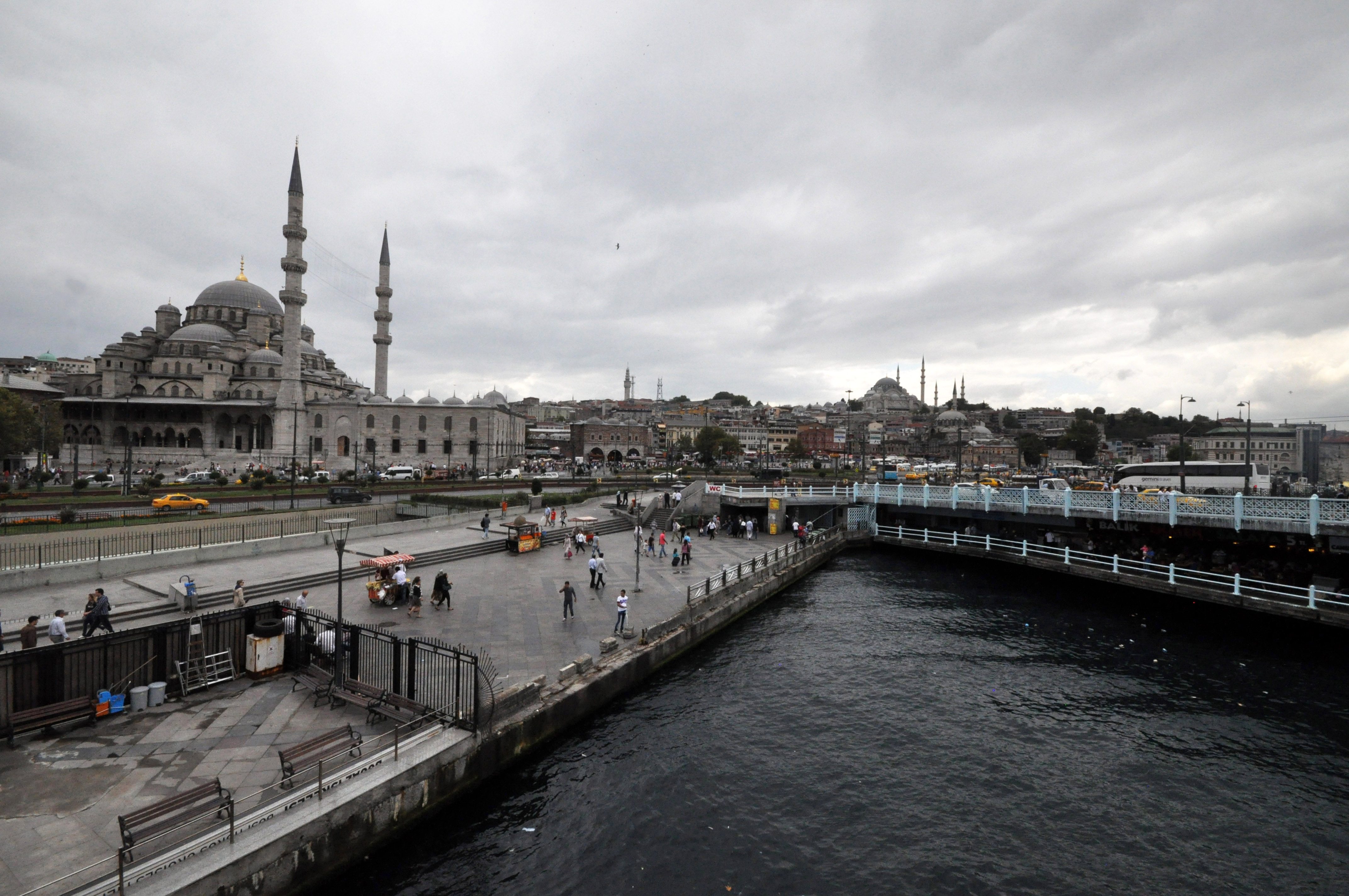 Eminönü is a former district of Istanbul in Turkey, now a neighbourhood of Fatih district. This is the heart of the walled city of Constantine, the focus of a history of incredible richness. Eminönü covers roughly the area on which the ancient Byzantium was built. The Galata Bridge crosses the Golden Horn into Eminönü and the mouth of the Bosphorus opens into the Marmara Sea. And up on the hill stands Topkapı Palace, the Blue Mosque (Sultanahmet Camii) and Hagia Sophia (Aya Sofya). Thus Eminönü is the main tourist destination in Istanbul. It was a part of the Fatih district until 1928, which covered the whole peninsular area (the old Stamboul) within the roman city walls - that area which was formerly the Byzantine capital Constantinople. Since the resident population of Eminönü is low today, it rejoined the Fatih district in 2009